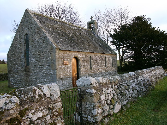 Hoselaw Chapel. A few miles due east of Kelso, Scottish Borders.